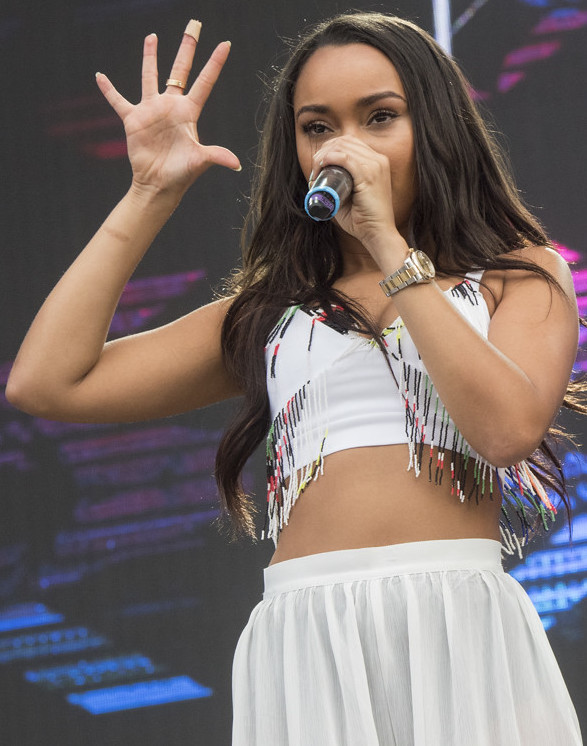 2015 Gibraltar Music Festival